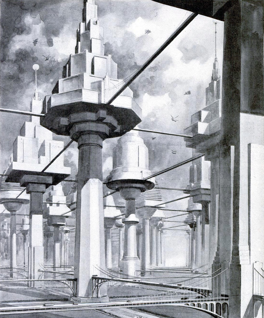 Treelike buildings by B. G. Seielstad, Popular Science Monthly, April 1934